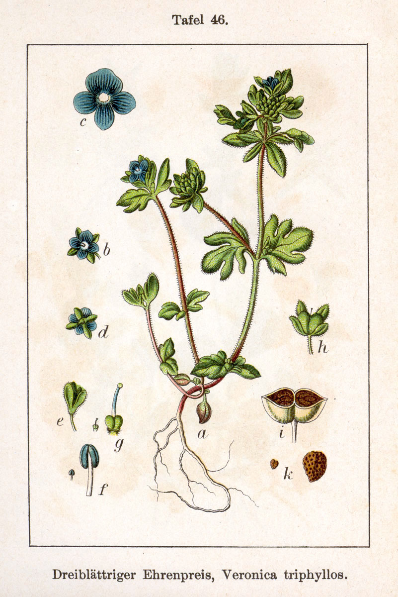 Veronica triphyllos L. Original Description Dreiblättriger Ehrenpreis, Veronica triphyllos